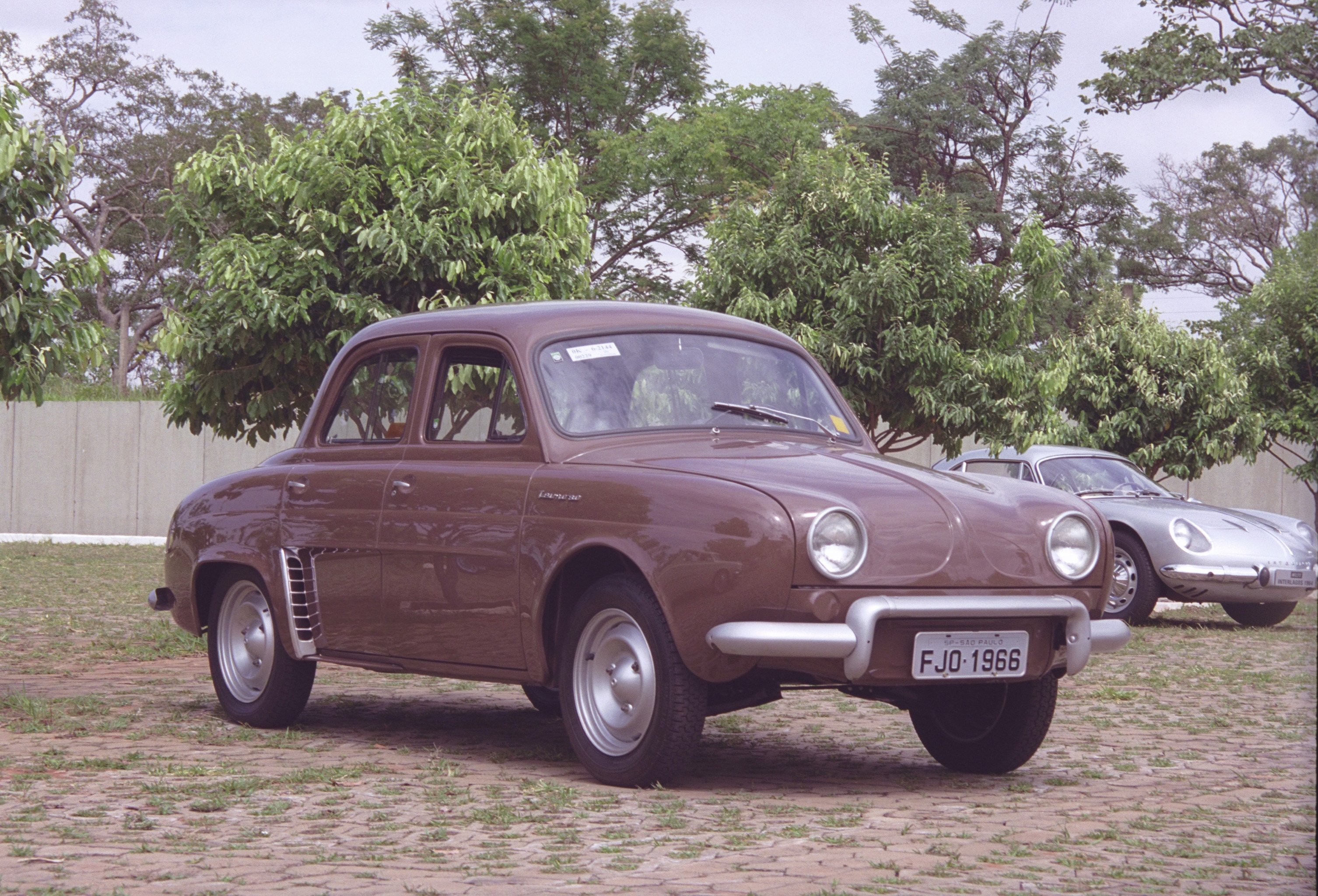 Renault Teimoso, a simpler version of the Dauphine, made in Brazil by Willys-Overland, in 1966. Also, see Willys Gordini.